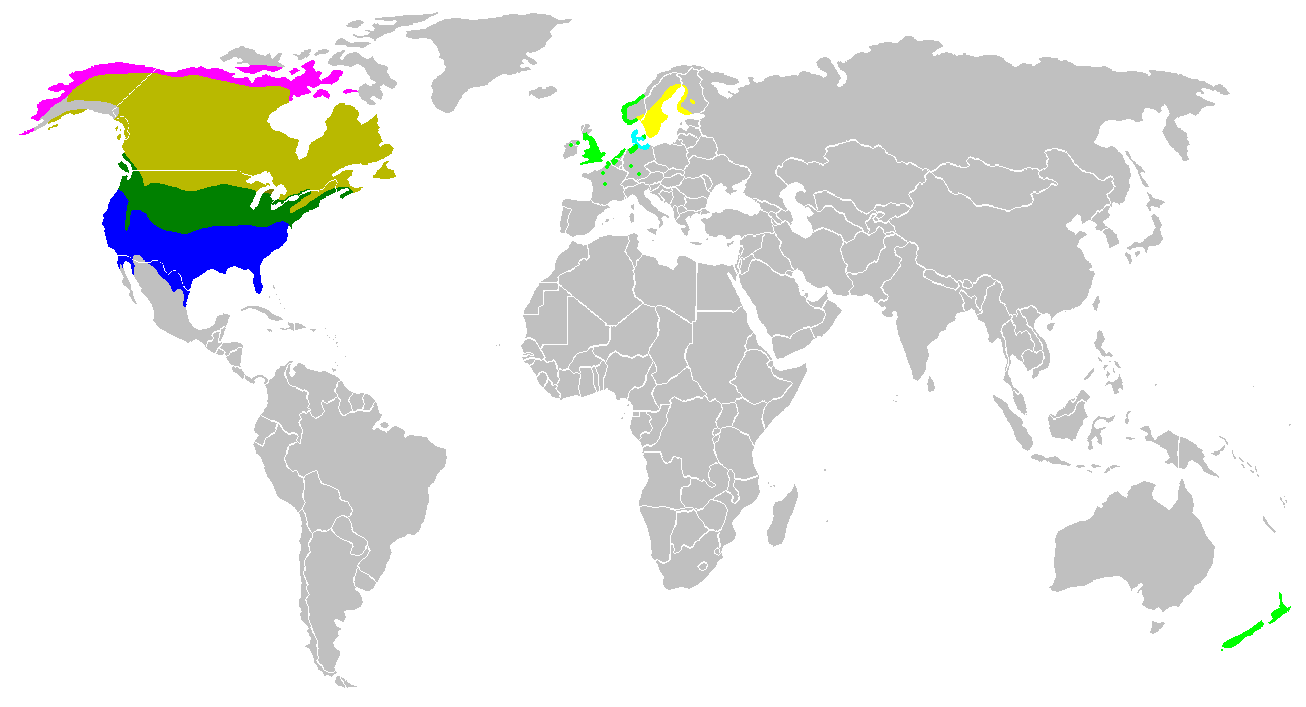 Branta canadensis Canada Goose distribution: Dark yellow: native, summer breeding. Light yellow: introduced, summer breeding. Dark green: native, year-round. Light green: introduced, year-round. Dark blue: native, winter. Light blue: introduced, winter. Pink: breeding range of Branta hutchinsii Cackling Goose